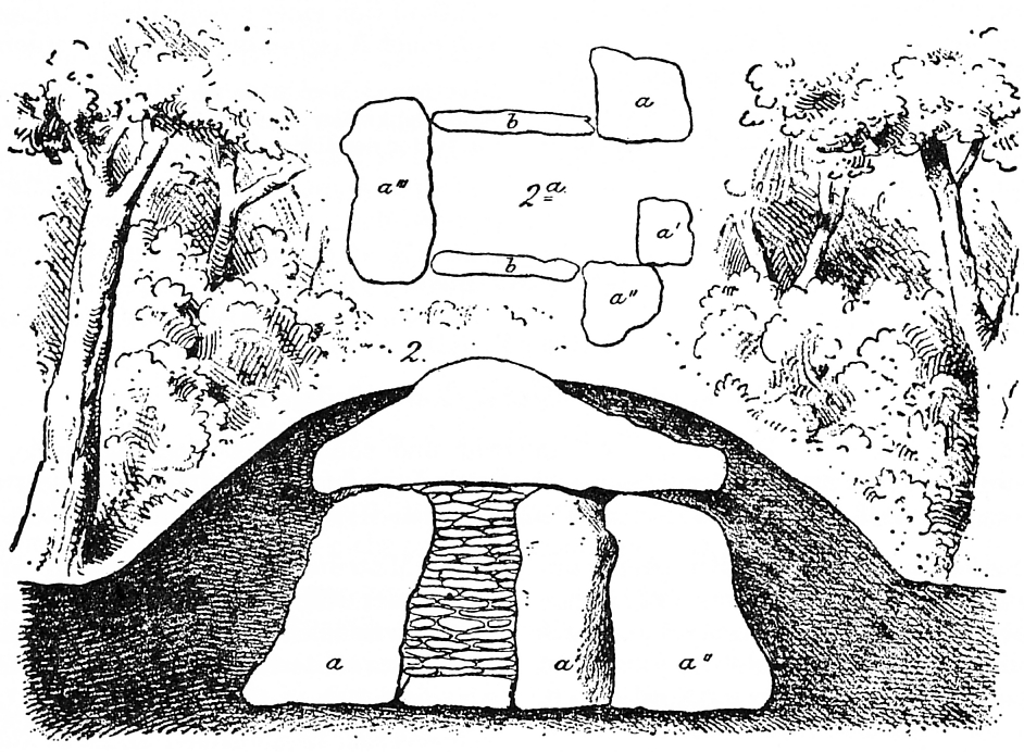 Megalithic Tomb Neubrandenburg (Sprockhoff-No. 452)